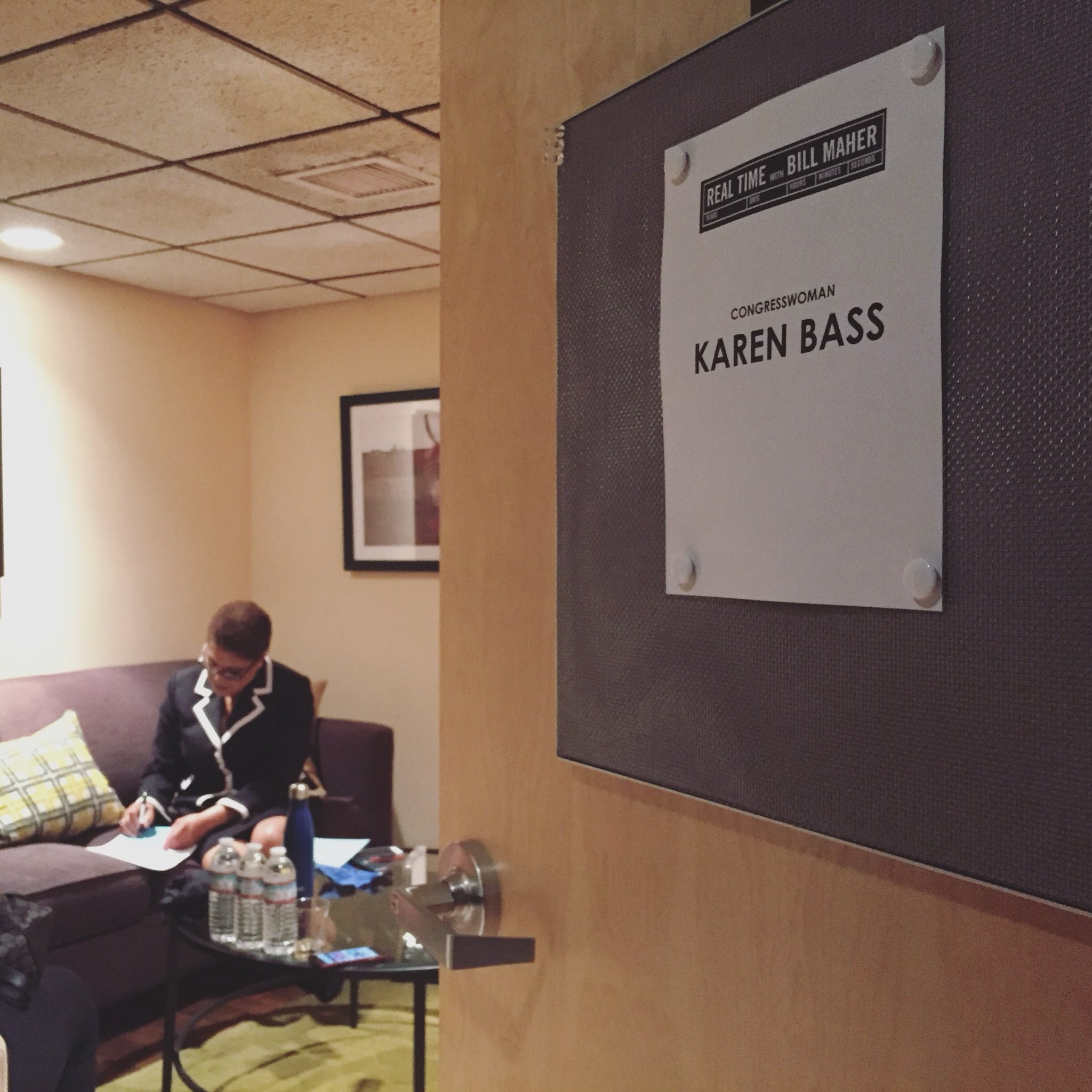 I’ll be live tonight with @billmaher on @RealTimers to dissect the week. Be sure to tune in!